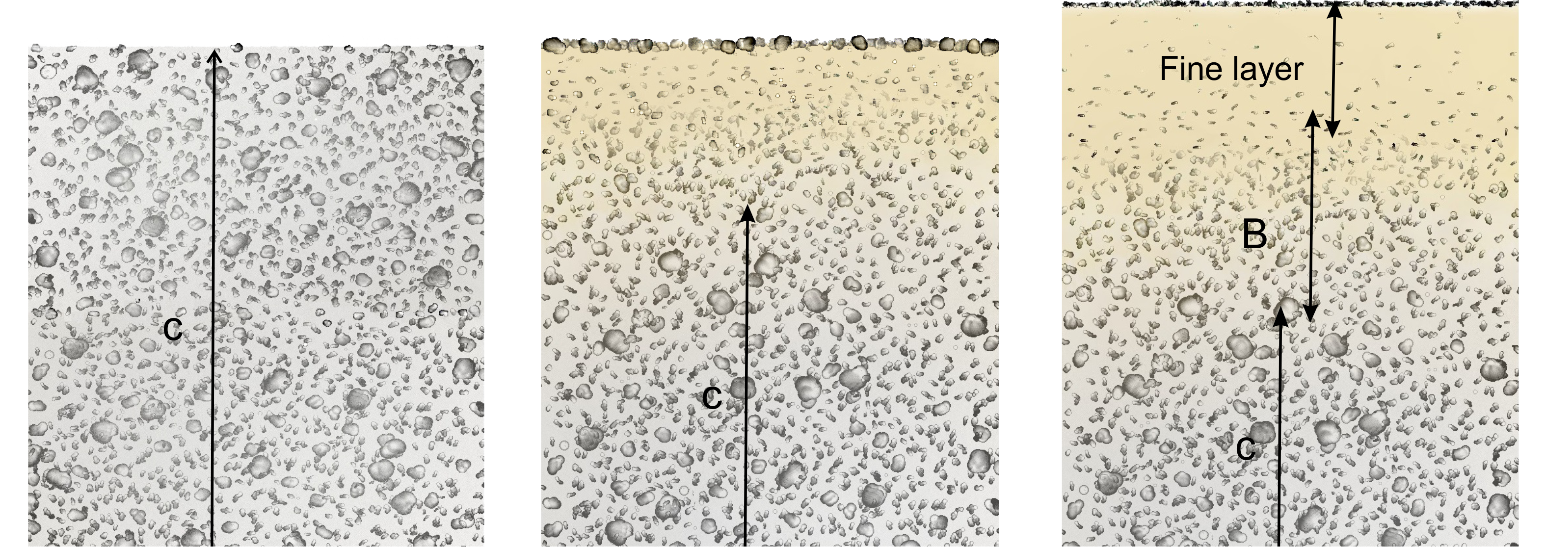 Desert pavements are understood to form by an accretionary process in which eolian sediment is trapped beneath surface rock fragments.